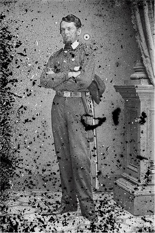 Carte-de-Visite of Col. John McLeod Murphy taken between 1861 and 1862, while commanding the 15th New York Regiment of Engineers, Army of the Potomac, United States Volunteers.